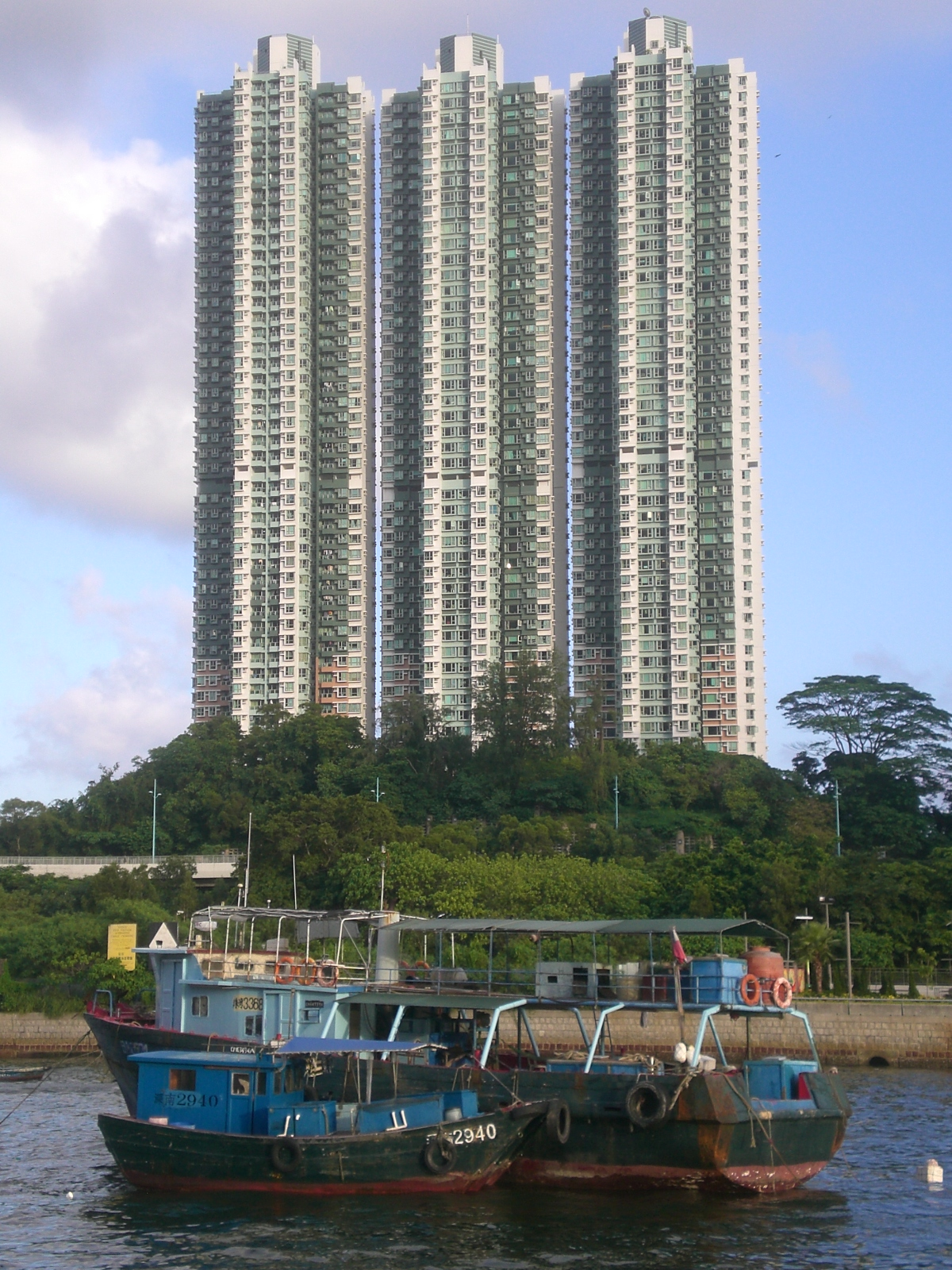 香港仔海濱公園望 鴨脷洲 深灣軒